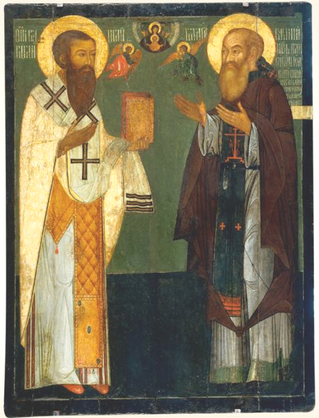 St. Basil of Caesarea and prince Vasili III of Russia. Icon.